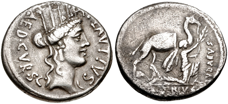 A. Plautius. 55 BC. AR Denarius (18mm, 3.83 g, 6h). Rome mint. Turreted head of Cybele right / Bacchius Judaeus (Aristobulus II, High Priest and King of Judaea) kneeling right, holding reins and offering up olive branch; behind, camel standing right. Crawford 431/1; Sydenham 932; Plautia 13. VF, toned, light cleaning scratches.